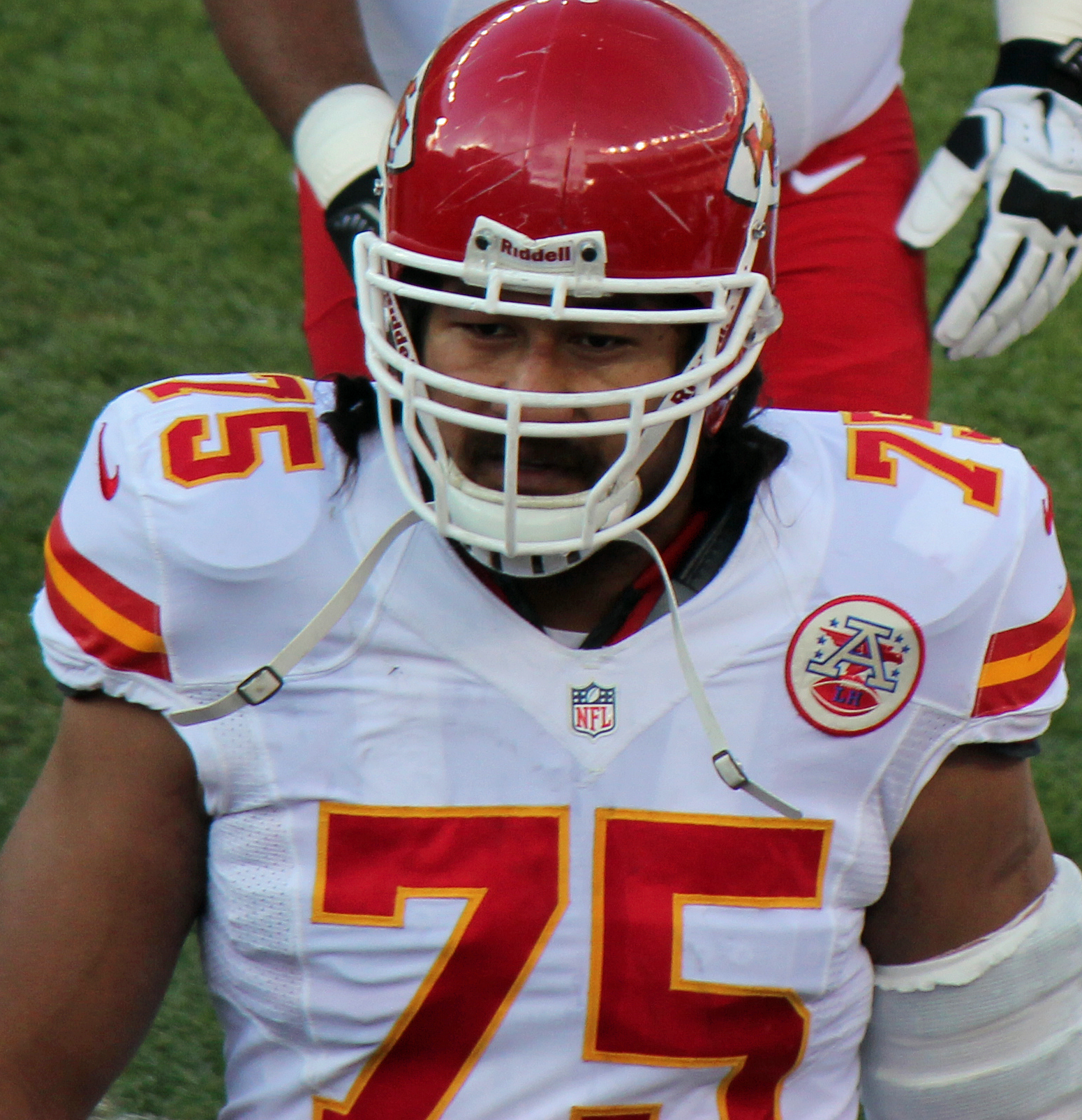 Ropati Pitoitua, a player on the National Football League.